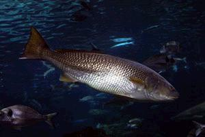 Picture of Argyrosomus regius